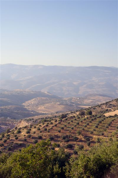 Gilead Hils